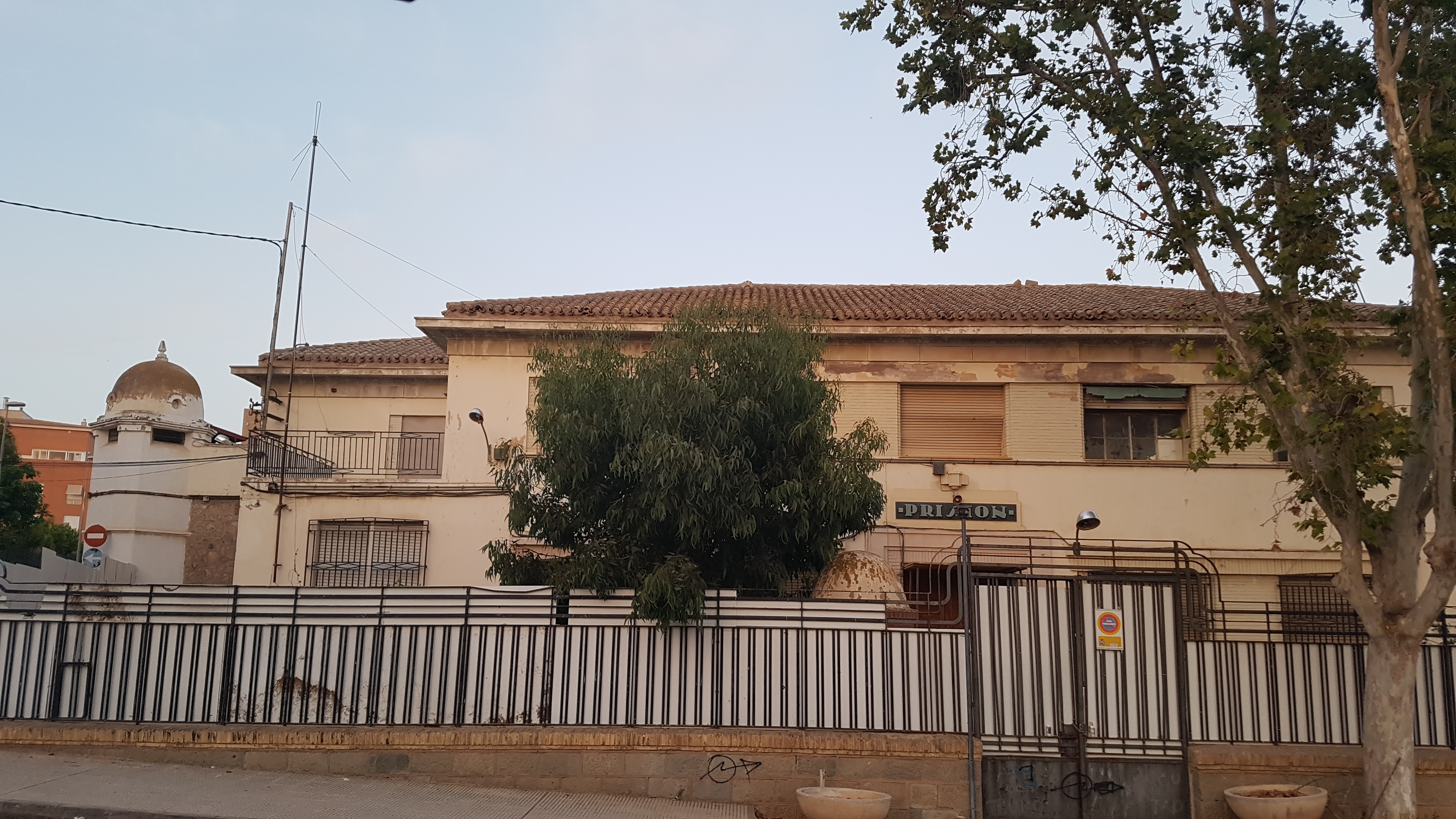 View of the facade of the San Antón Prison, in Cartagena.